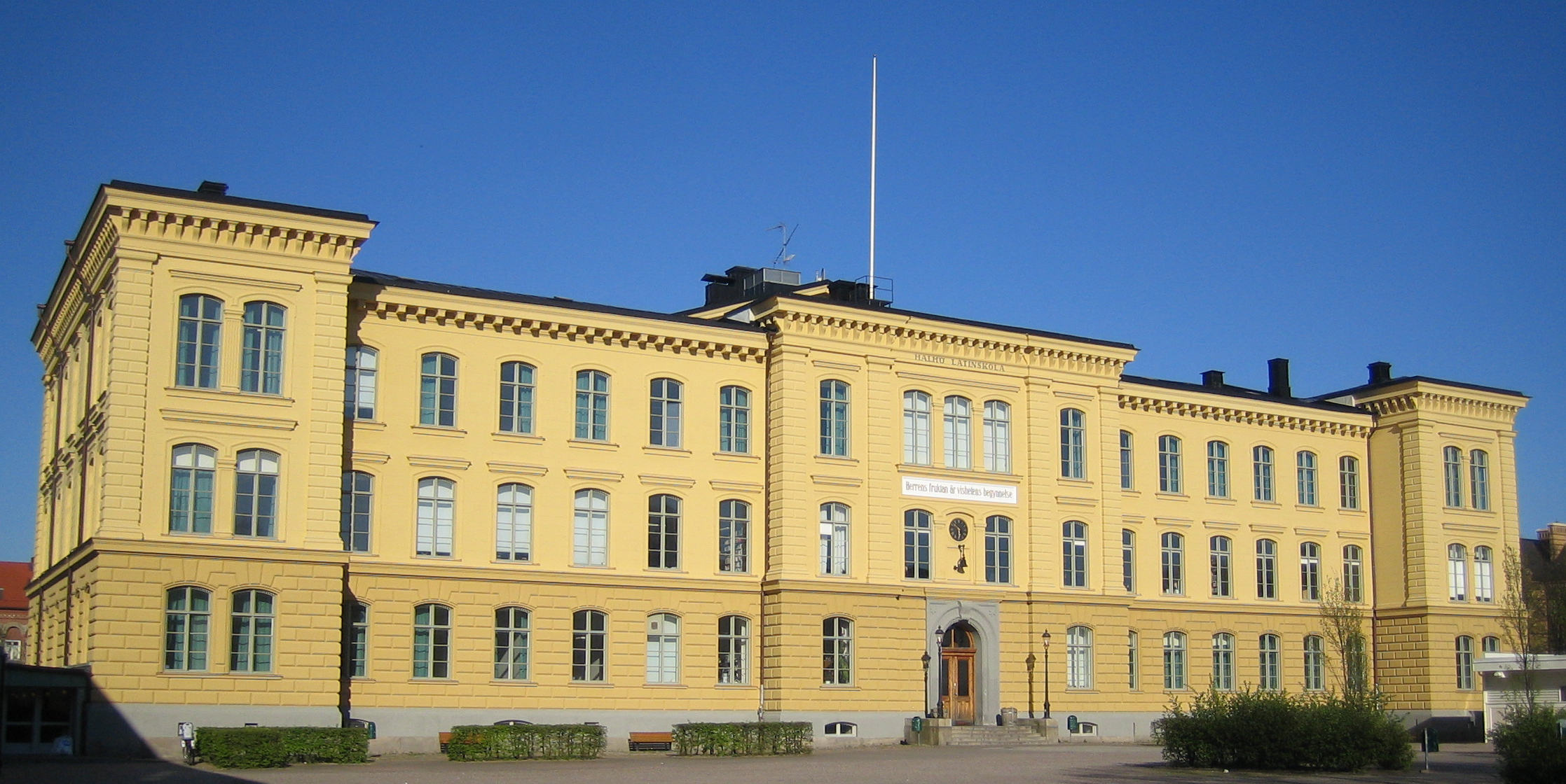 Malmö latinskola, a gymnasium school situated in the city of Malmo.